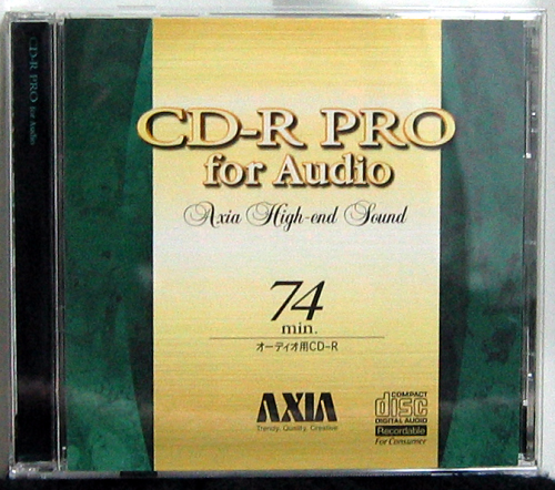 AXIA(Fujifilm) CD-R PRO for Audio